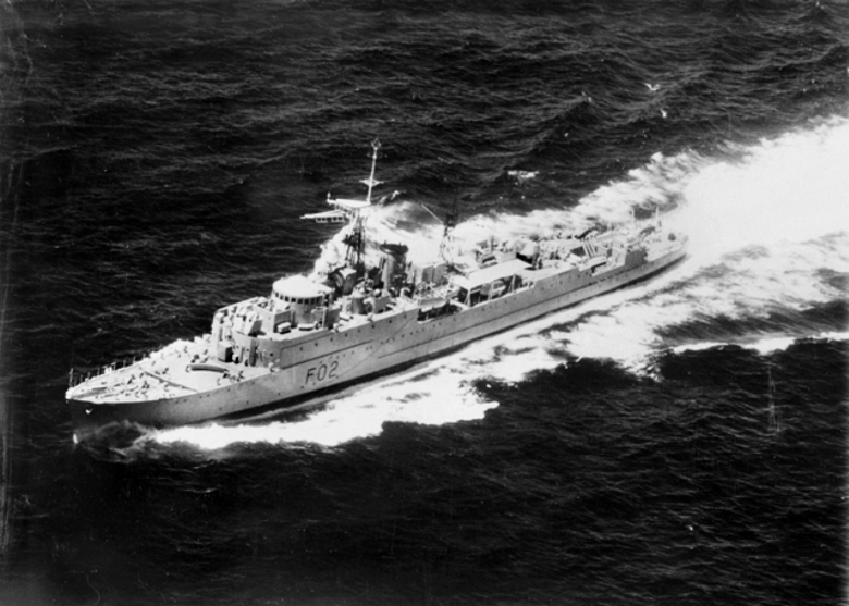 AWM Caption: c1954-03. Aerial port bow view of the former destroyer HMAS Queenborough (F02) after her conversion to an anti submarine frigate. Externally her destroyer origins are indicated only by her funnel and hull as all superstructure above the upper deck has been replaced. The ship's new armament consists of a twin 40 mm Bofors mark 5 AA mounting forward and 4 inch mark 16 guns in a twin mark 19 mounting aft. Note the launching rails for flare rockets fitted to the side of the mounting. Two Limbo anti submarine mortars and their magazines are fitted in an echelon arrangement aft. A type 277 height finding radar is fitted just above the bridge. Type 293q air surface search and type 974 navigation radars are fitted to the foremast. The ship has not yet been commissioned as she is flying no ensign and her close range blind fire director has not yet been fitted. She is probably running speed trials. (Naval Historical Collection)